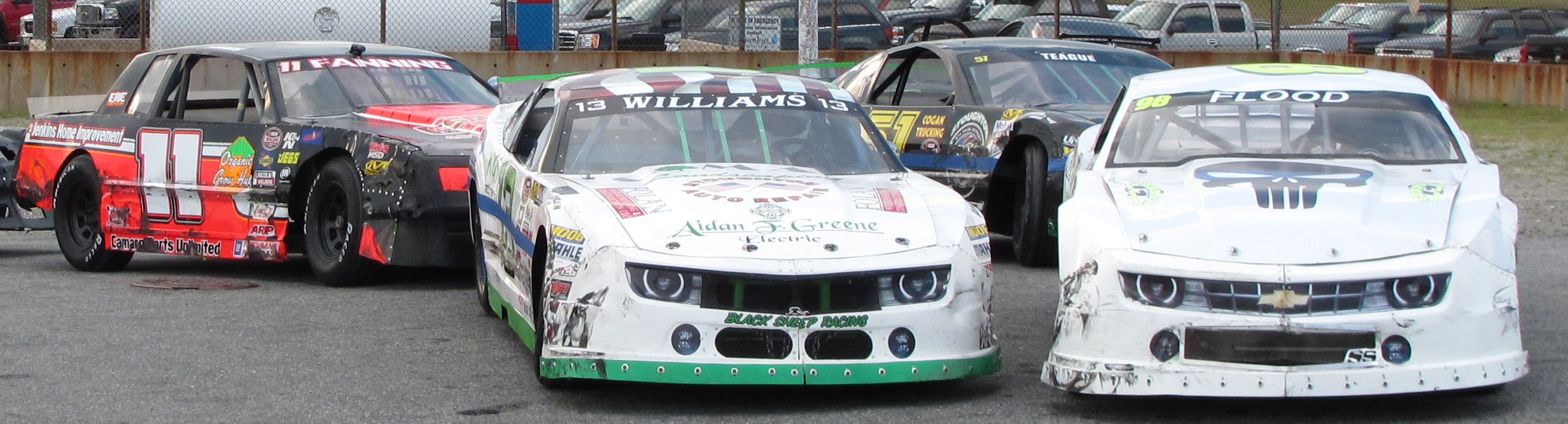 Sportsmans at Seekonk Speedway, lined up to start a heat race